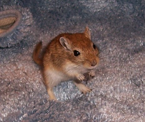 The Golden Agouti gerbil one of the four main types of gerbil found in the wild.